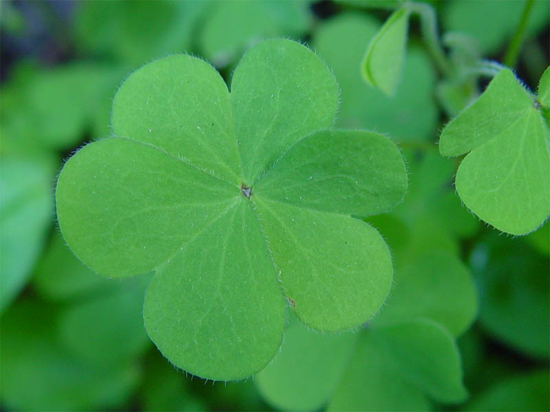 Description Oxalis albicans, Hairywood Sorrel. Date March 13, 2004 Location San Pedro Valley Park, San Mateo Co., California Photographer Franco Folini